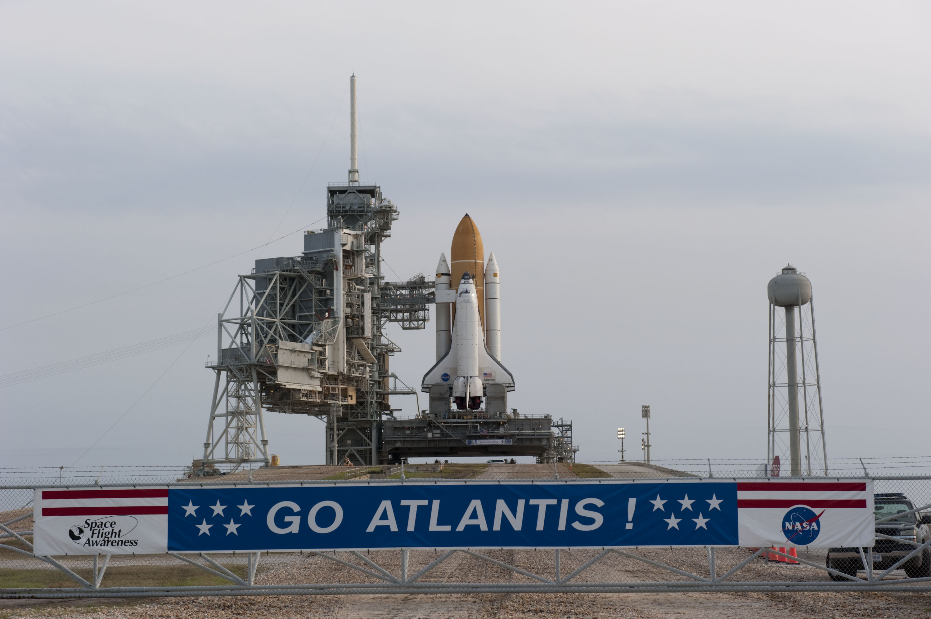 A banner proclaims the sentiments of Kennedy's work force at Launch Pad 39A at NASA's Kennedy Space Center in Florida, after space shuttle Atlantis completed its historic and final journey from the Vehicle Assembly Building. Atlantis was secured or "hard down," at its seaside launch pad at 3:29 a.m. EDT on Wednesday, June 1. The milestone move, known as "rollout," paves the way for the launch of the STS-135 mission to the International Space Station, targeted for July 8. STS-135 will be the 33rd flight of Atlantis, the 37th shuttle mission to the space station, and the 135th and final mission of NASA's Space Shuttle Program.